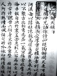 Eulbyungjochunrock, Heo Gyun